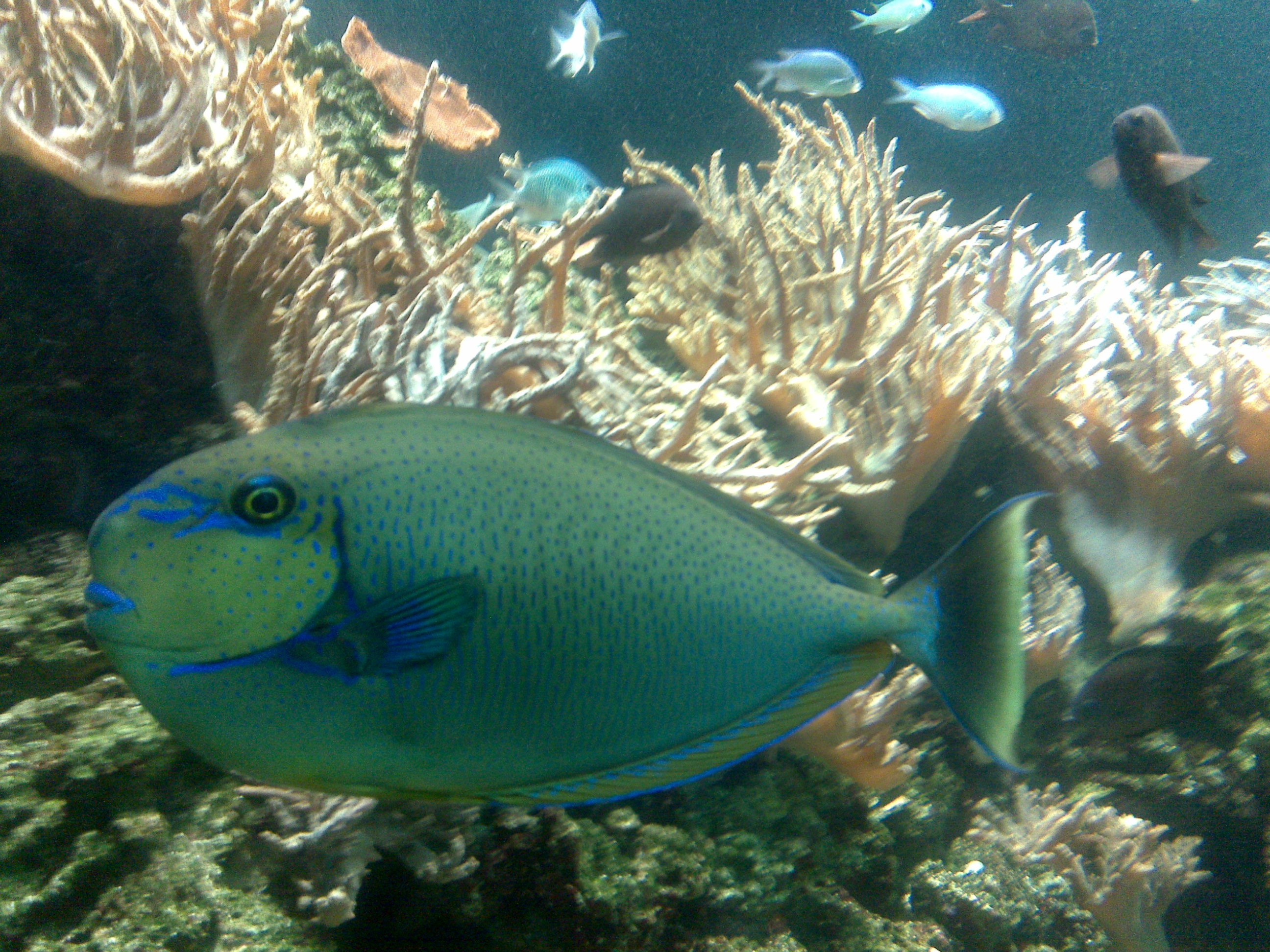 Naso vlamingii or Bignose unicornfish. London Zoo.